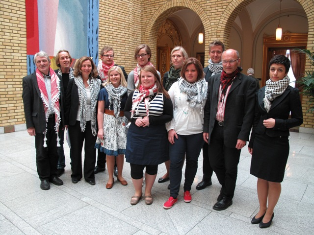 Members of the Norwegian parliament wearing keffiyeh in protest against Israel's boarding ships bringing humanitarian aid to Gaza.